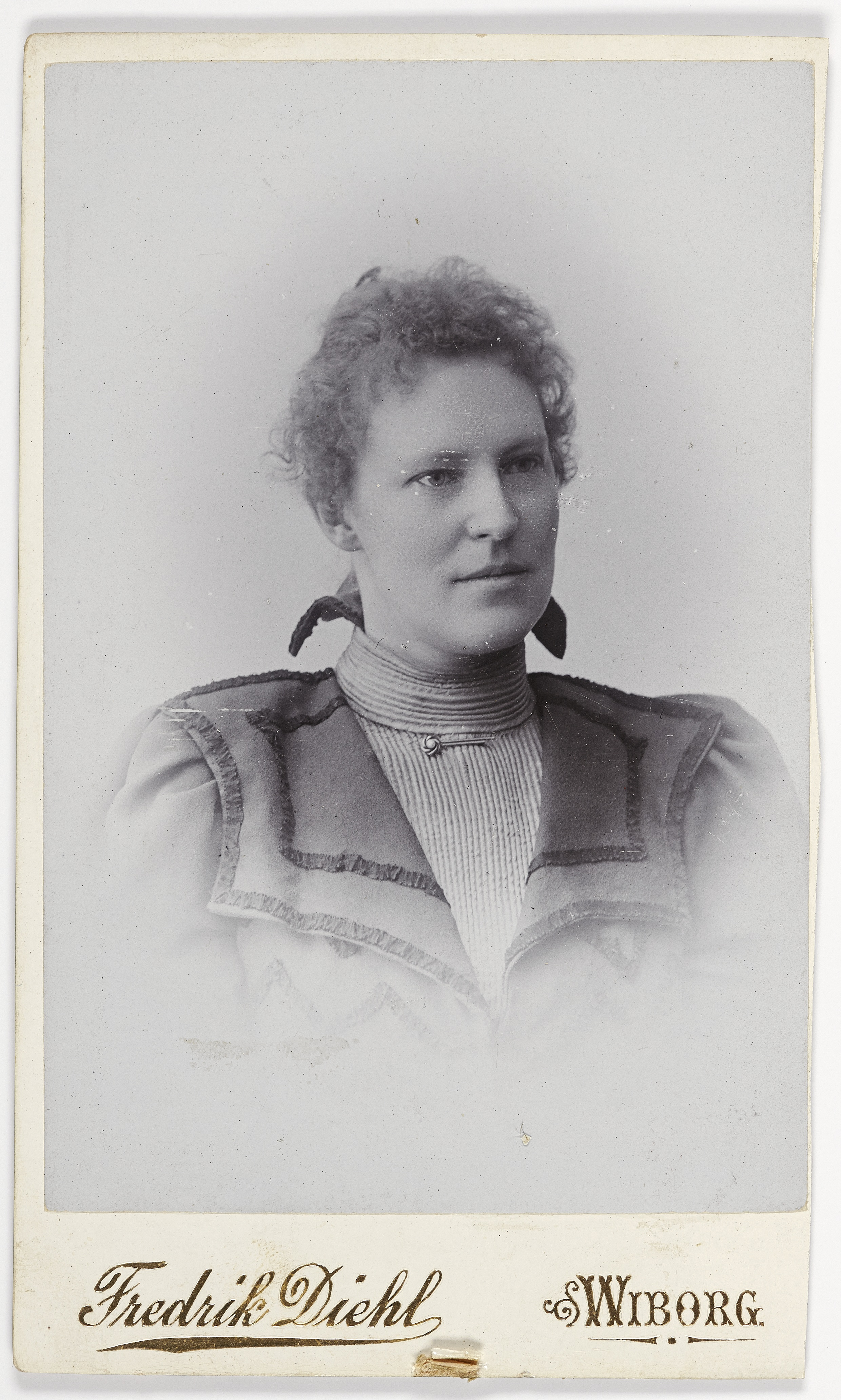 Elisabeth Koch